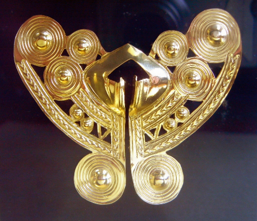 Tairona gold nose ornament